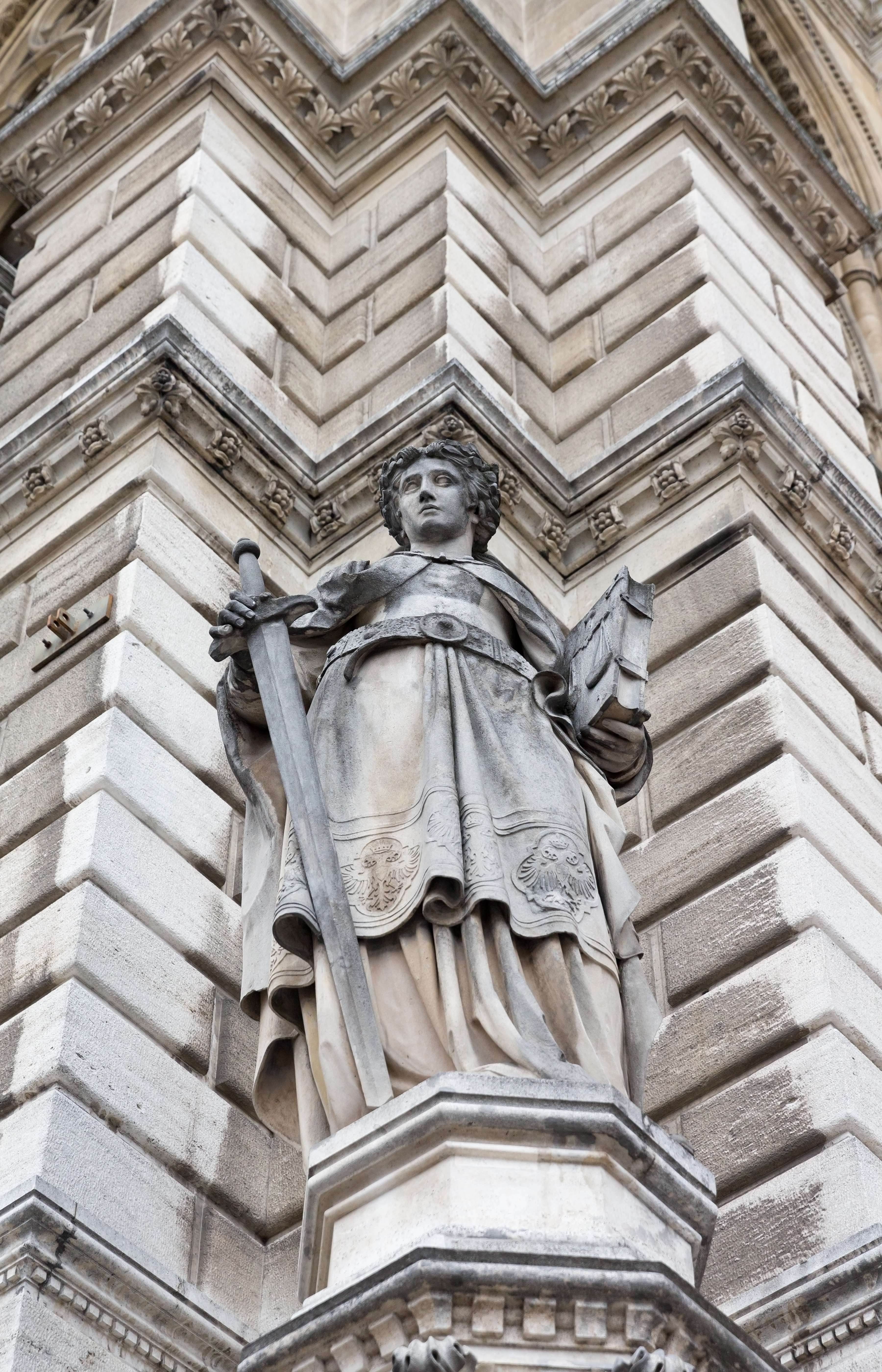 Allegorical statue "Justice" by Franz Gastell at the main entrance of the Rathaus in Vienna, Austria.